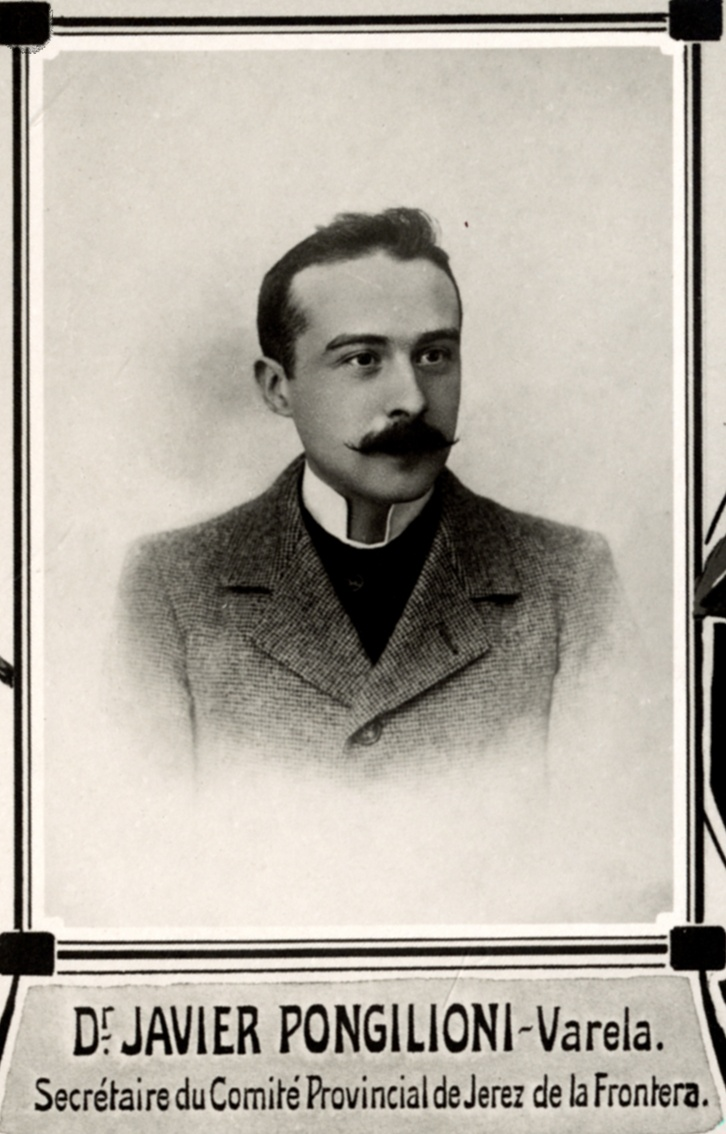 Jerez medic